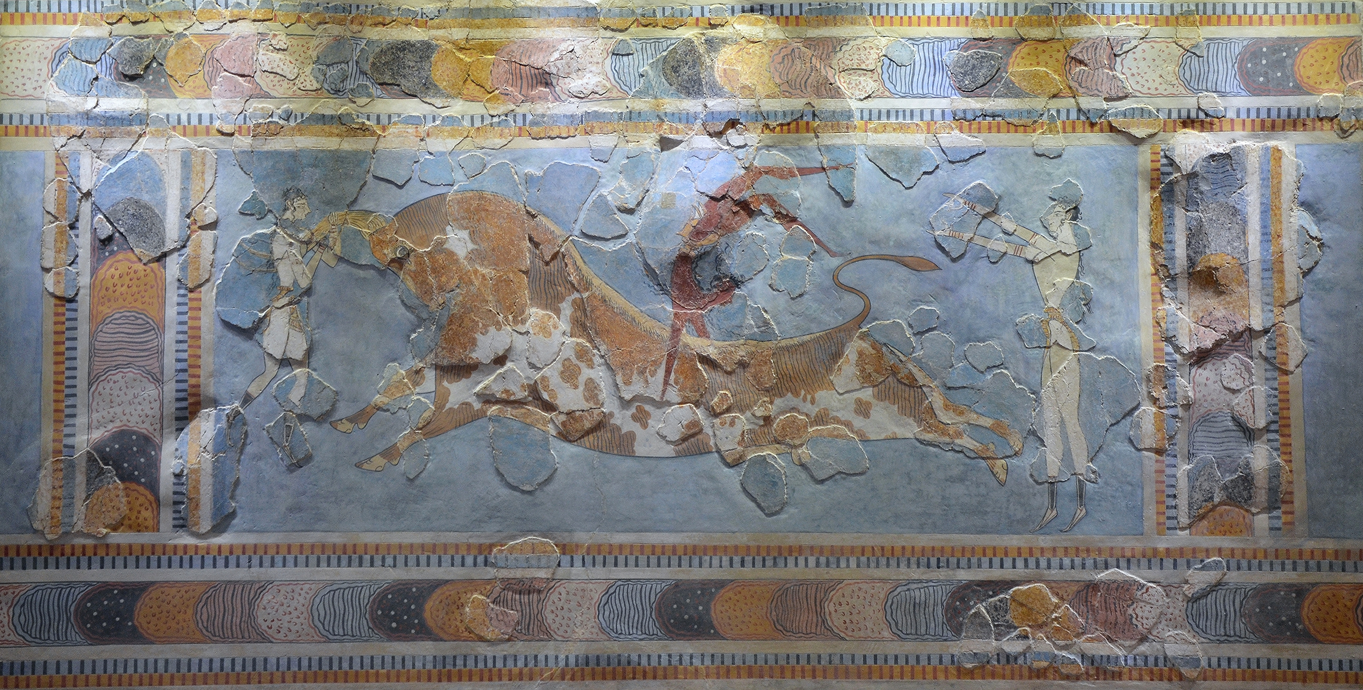 Minoan fresco depicting a bull leaping scene, found in Knossos, 1600-1400 BC, Heraklion Archaeological Museum, Crete